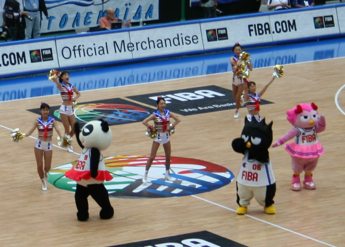 Basketball World Cup 2006 in Japan. The World Cup mascots (from the final game between Spain and Lithuania)